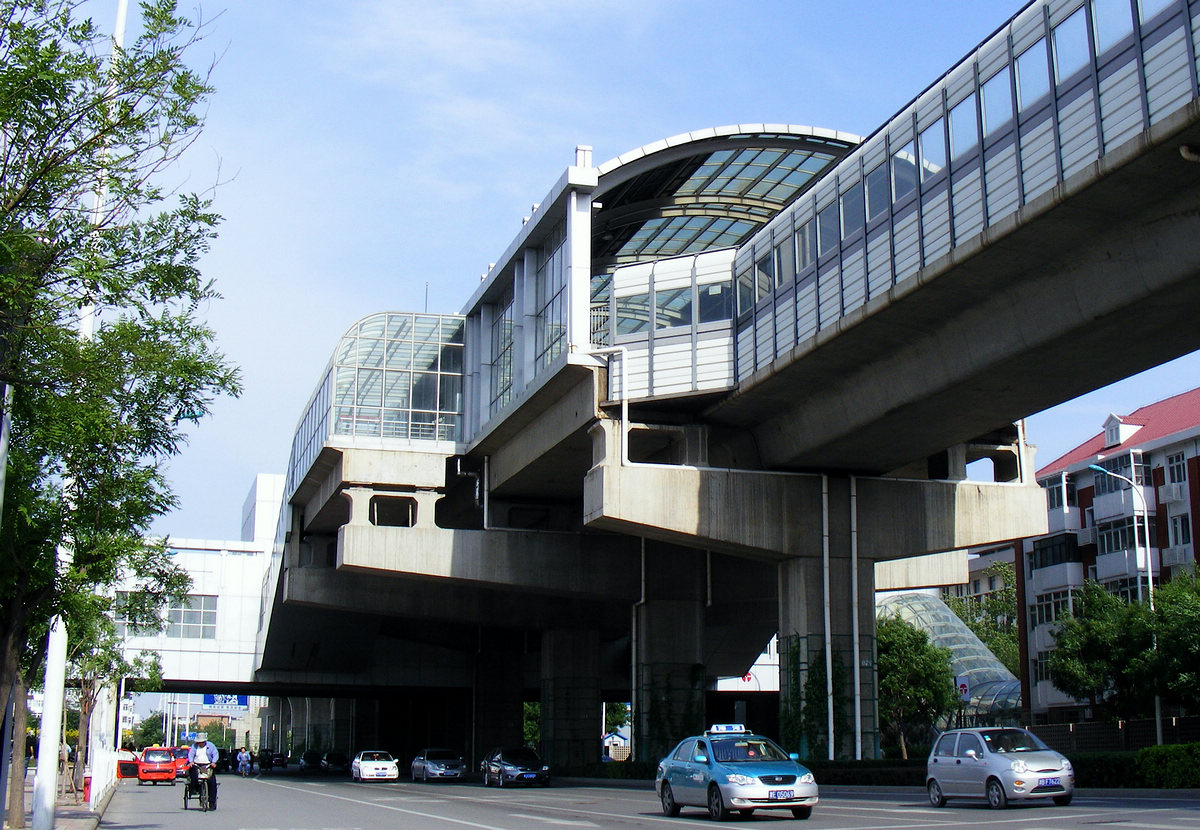 财经大学站（地铁一号线）